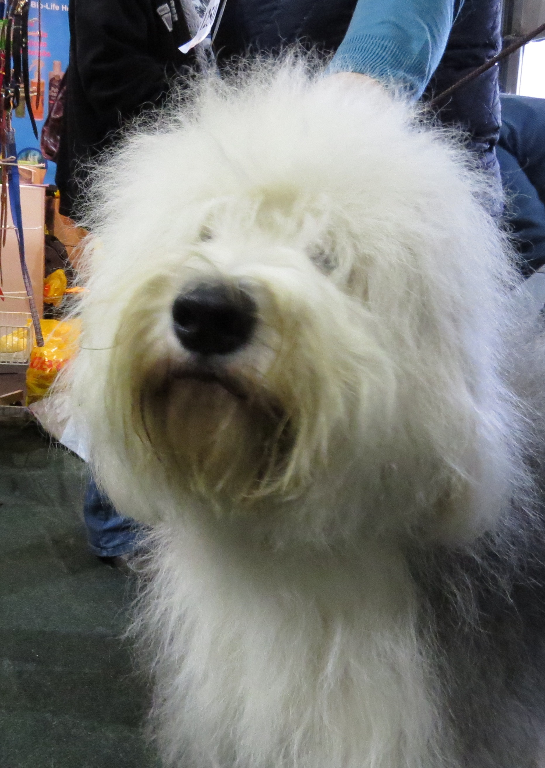 Riga, Baltic Winner -2013, 9-10 Nov